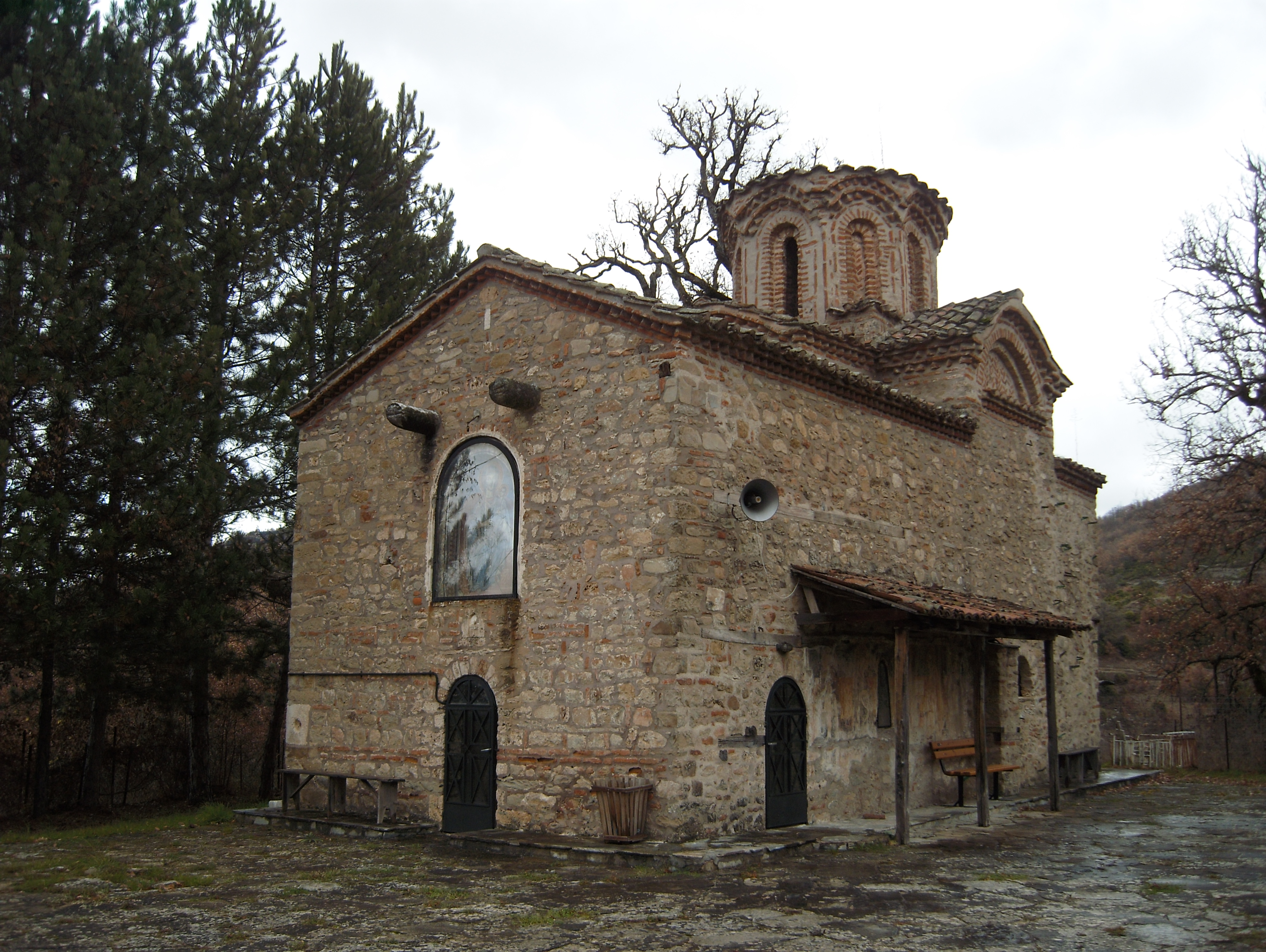 Doleni / Zeugostasio